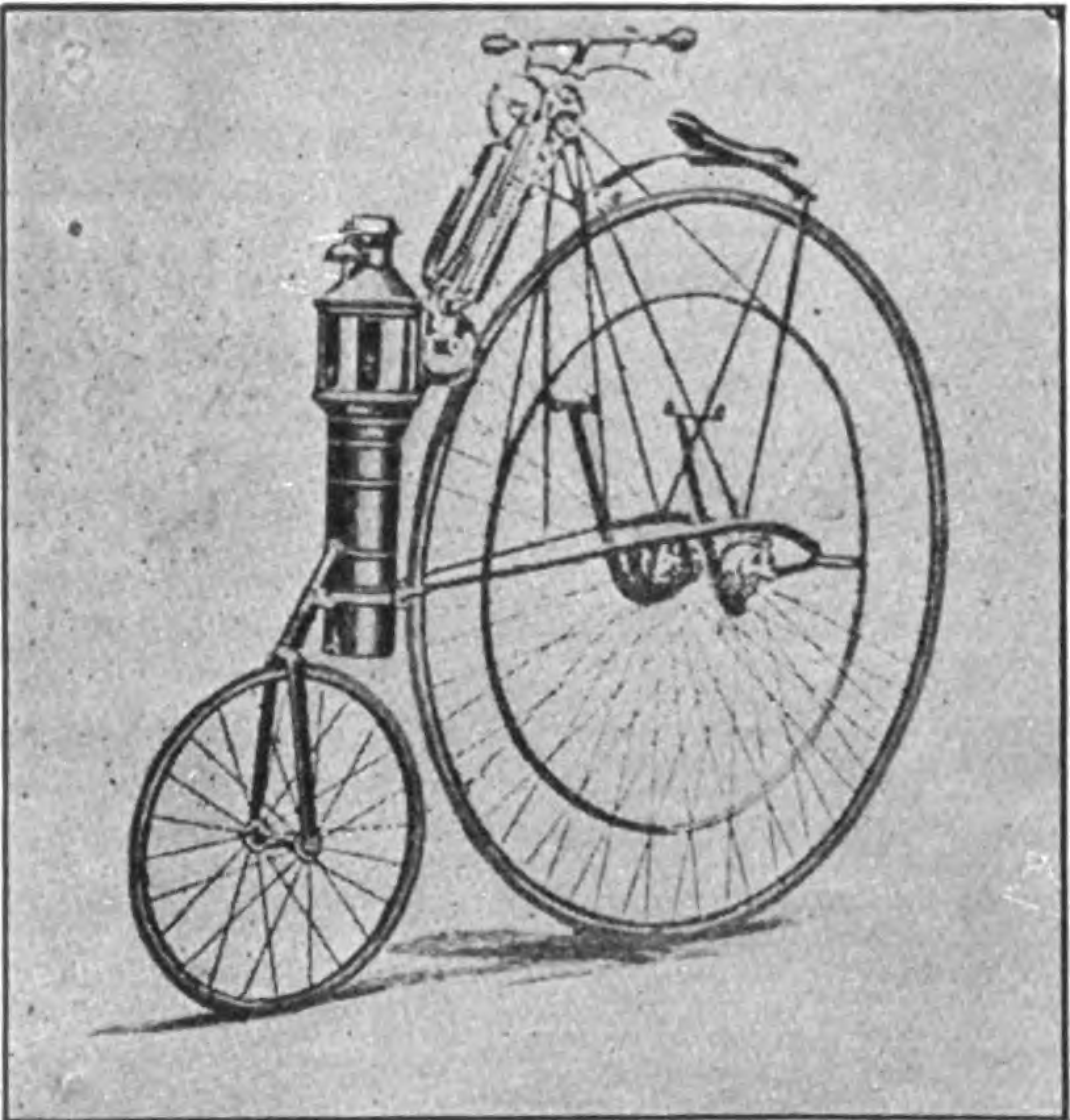 Drawing of 1884 Copeland steam bicycle. Page 52. Illustration by Hendee Manufacturing Co.